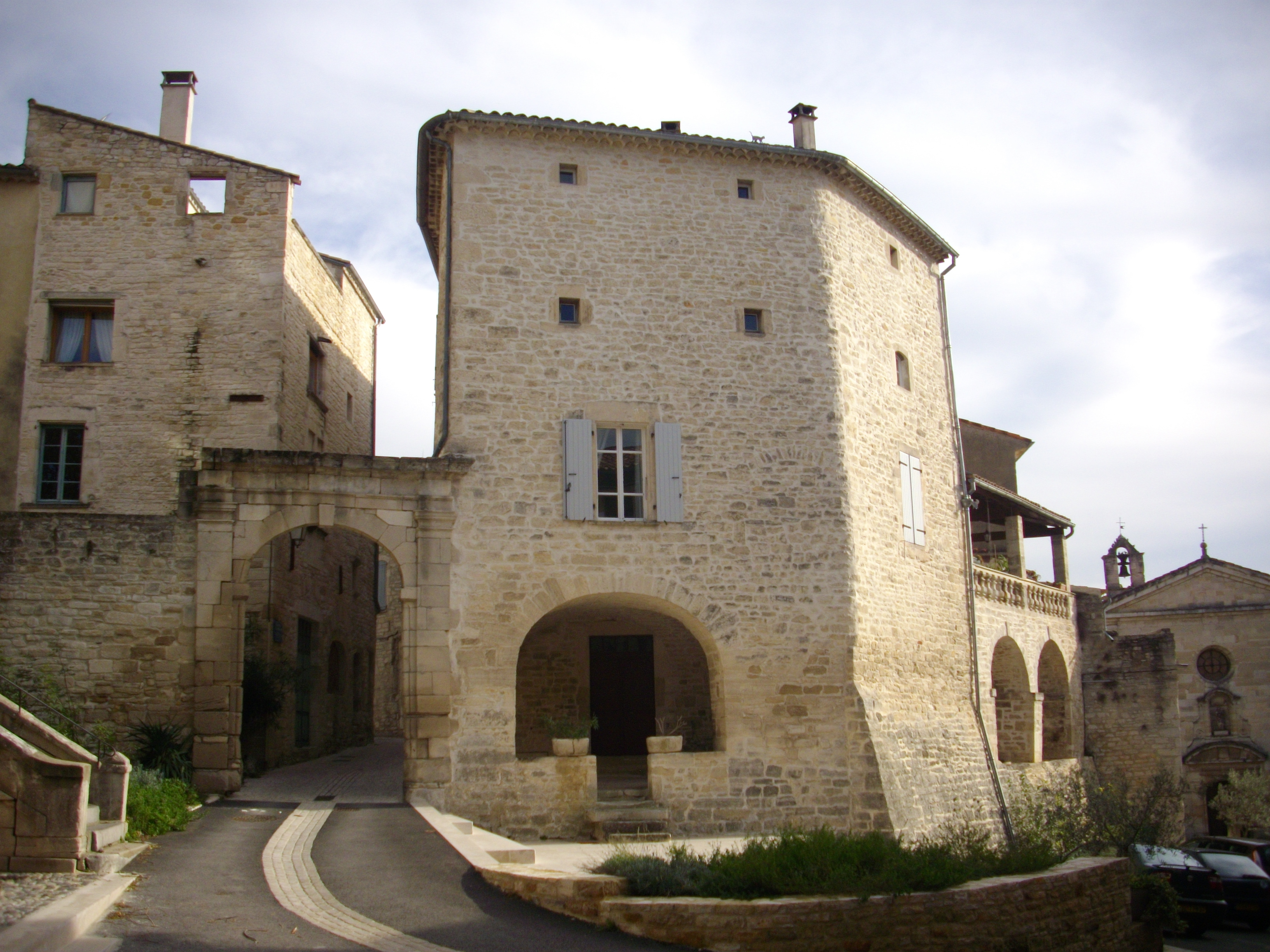 "Lower gate" of Barjac (Gard, France)